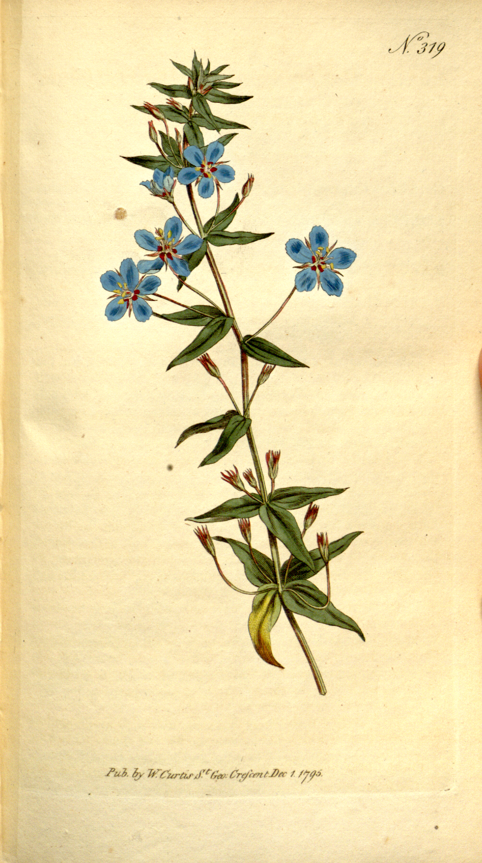 This is a plate from The Botanical Magazine, Volume 9.